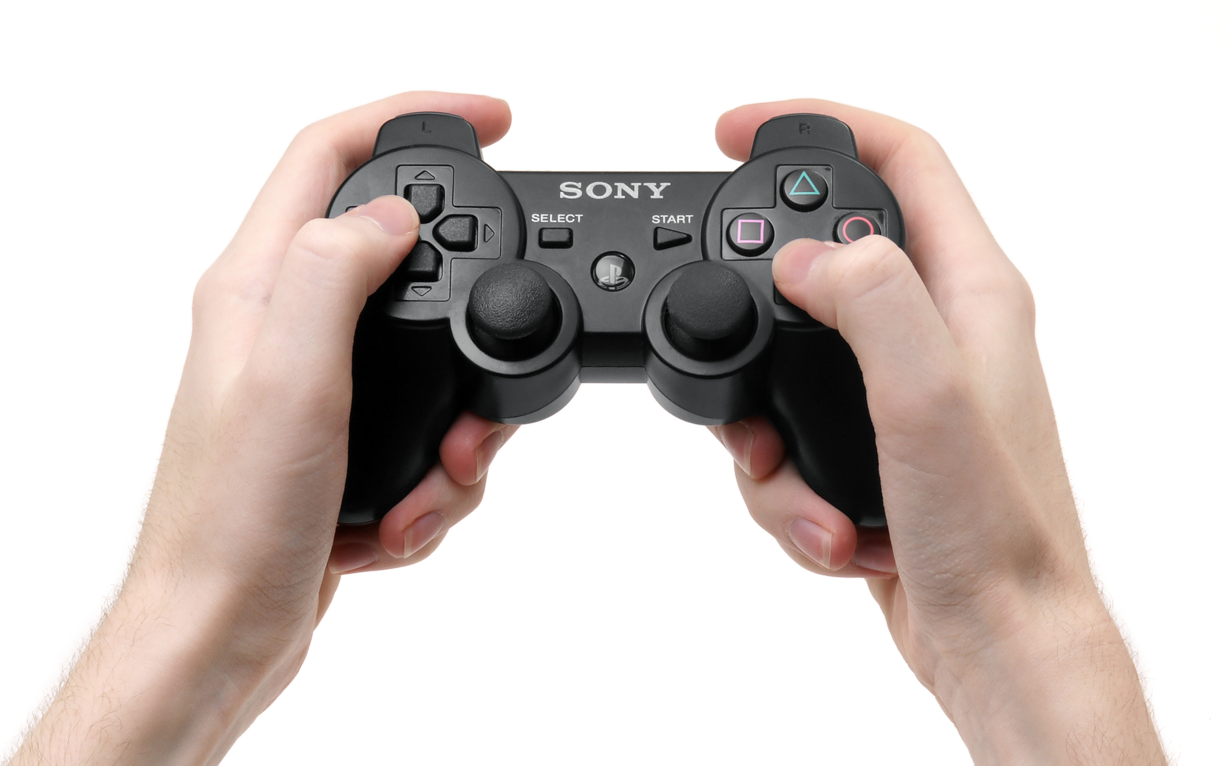 A DualShock 3 controller for the PlayStation 3 shown in hand.